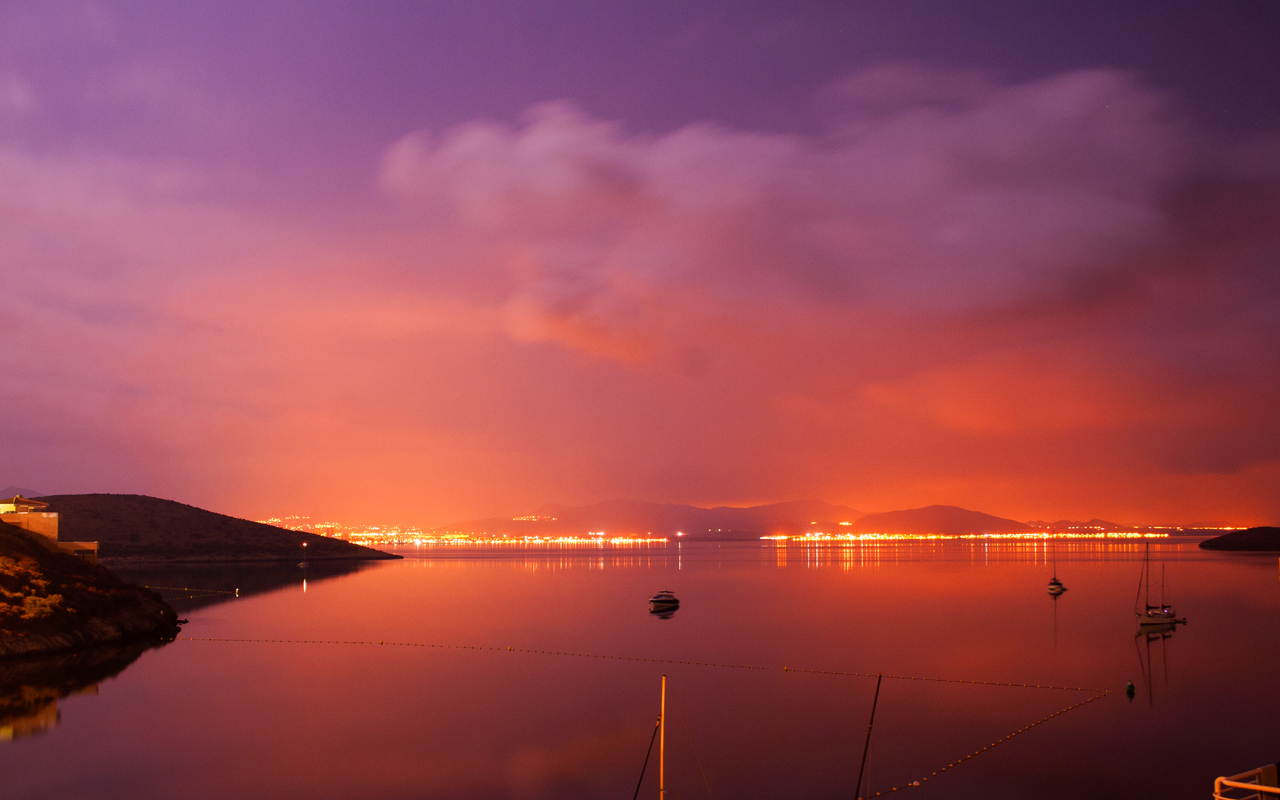 View from the La Manga strip looking onto the Mar Menor at night.